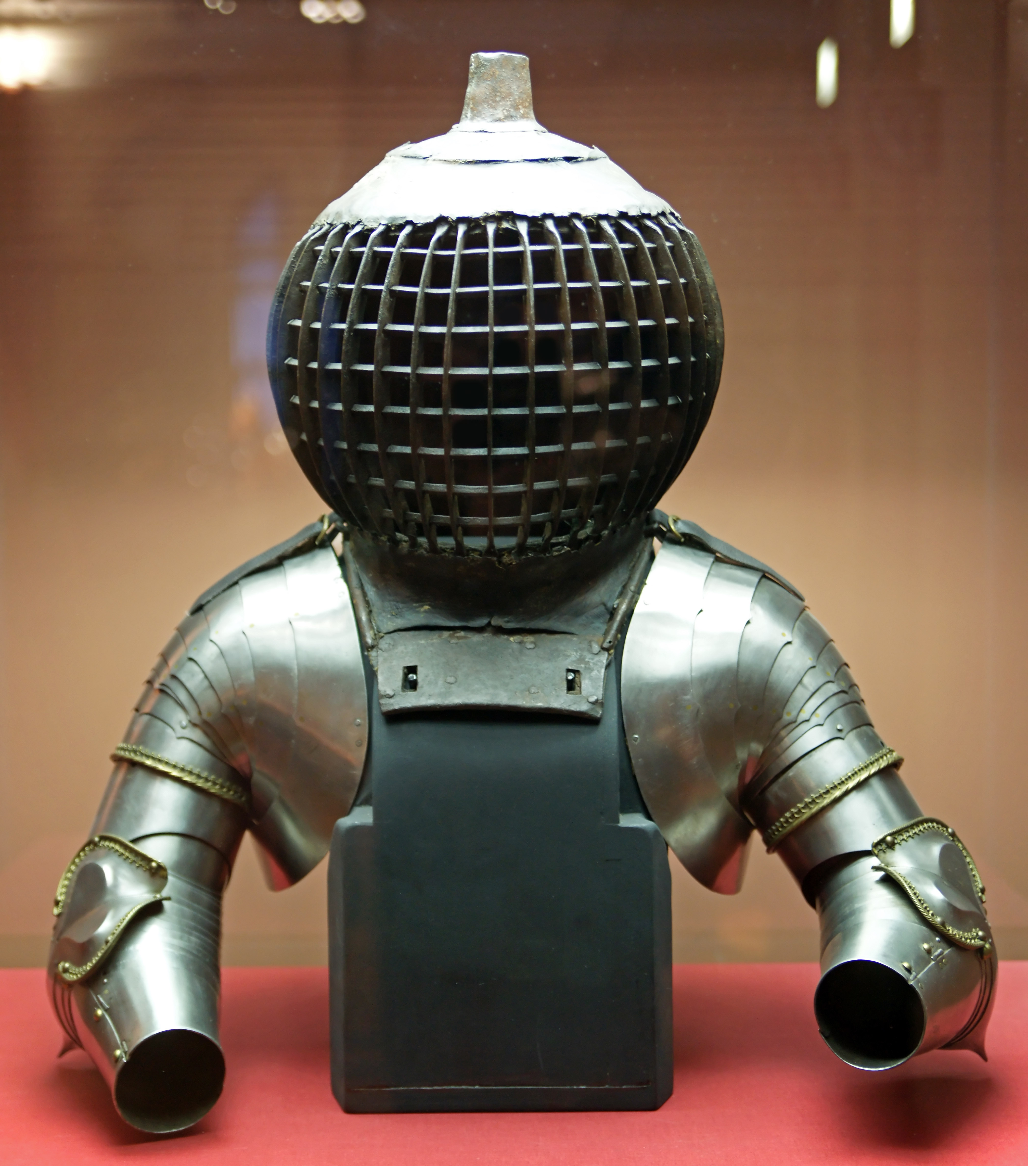 Helmet and arm protection for the Kolbenturnier.